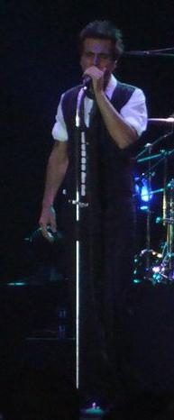 Turkish rock musician.